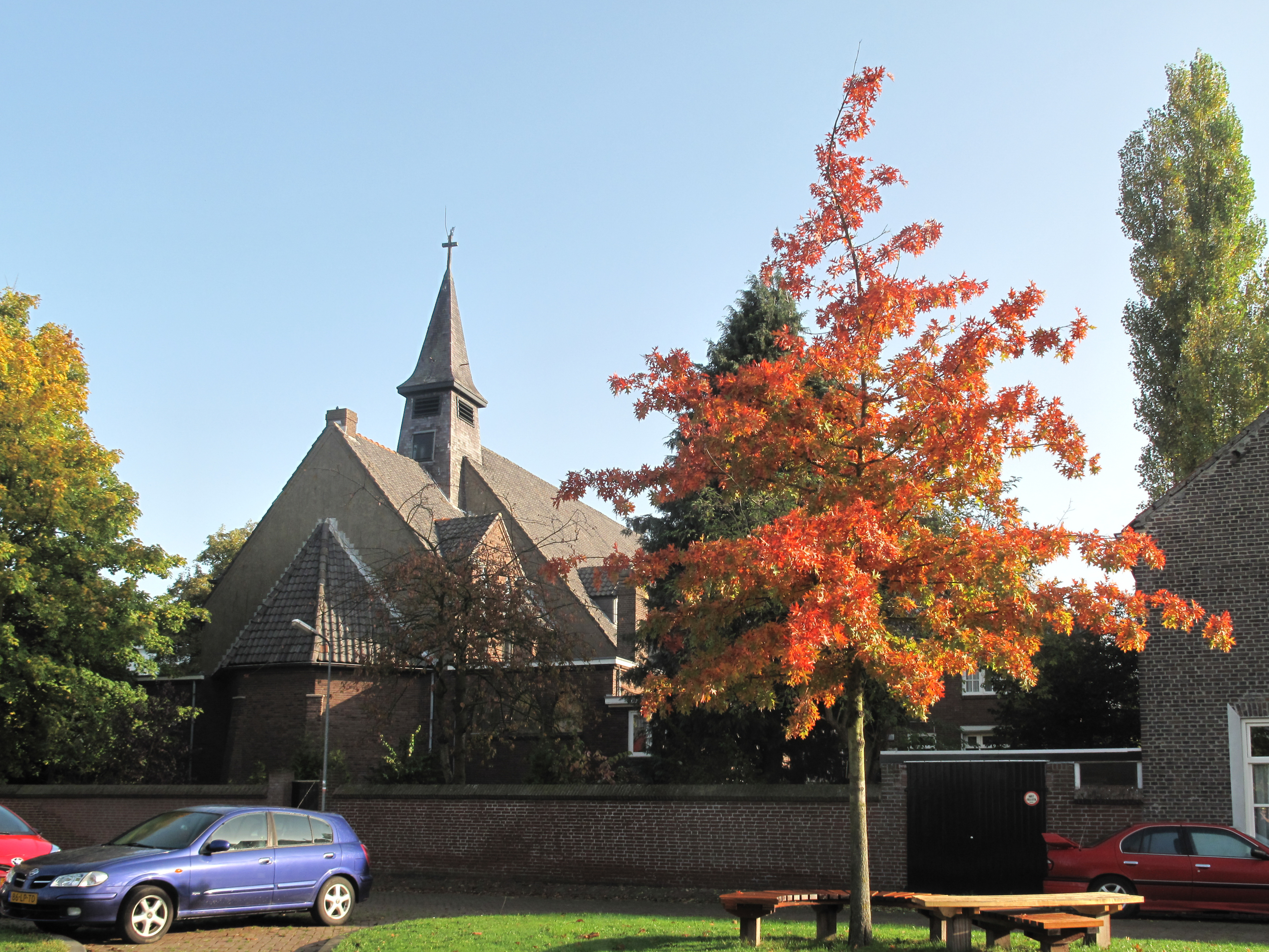 Engelen, church: de Sint Lambertuskerk